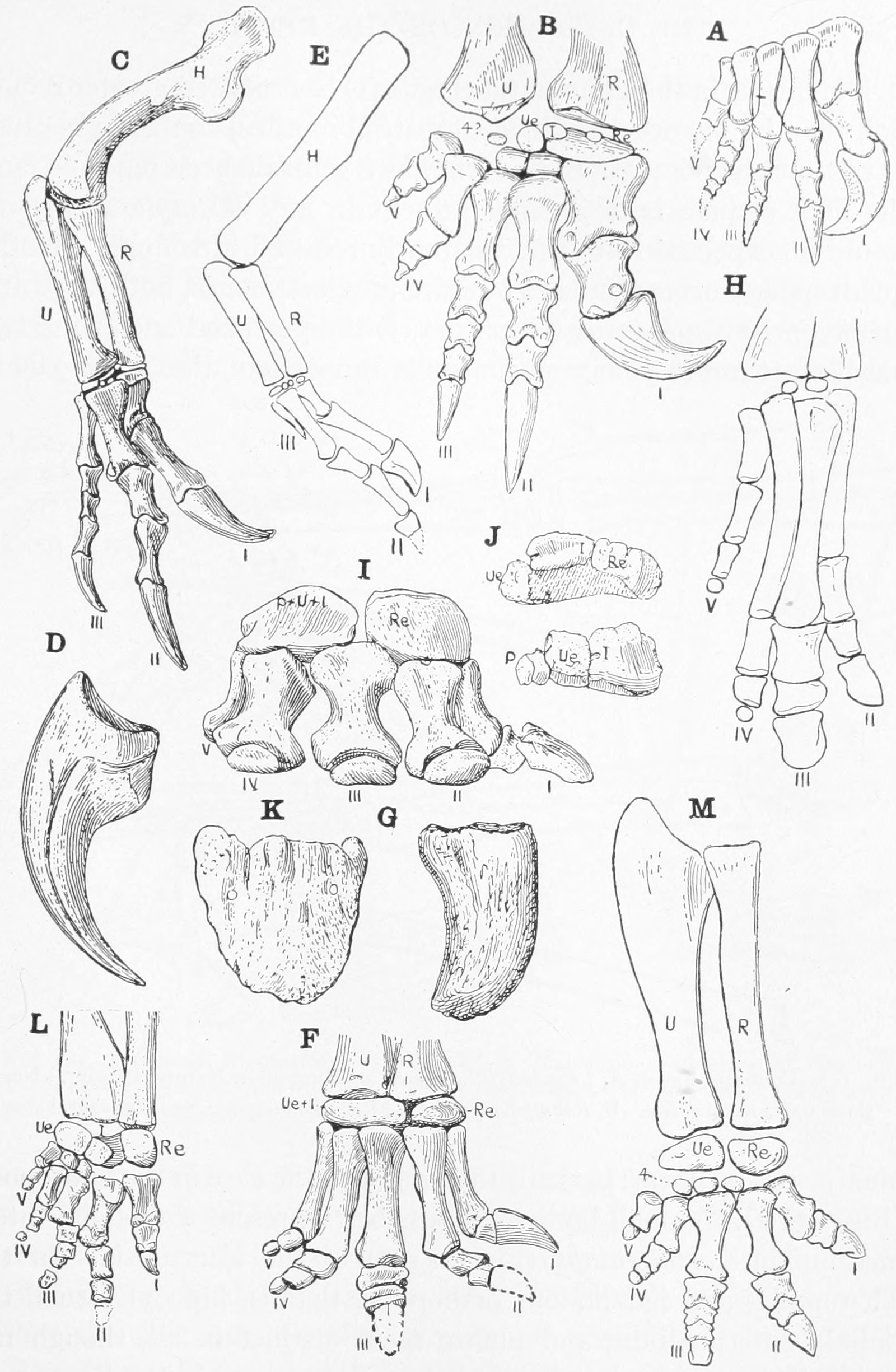 Illustration of Dinosaur pedes (feet) from The Osteology of the Reptiles (1925)